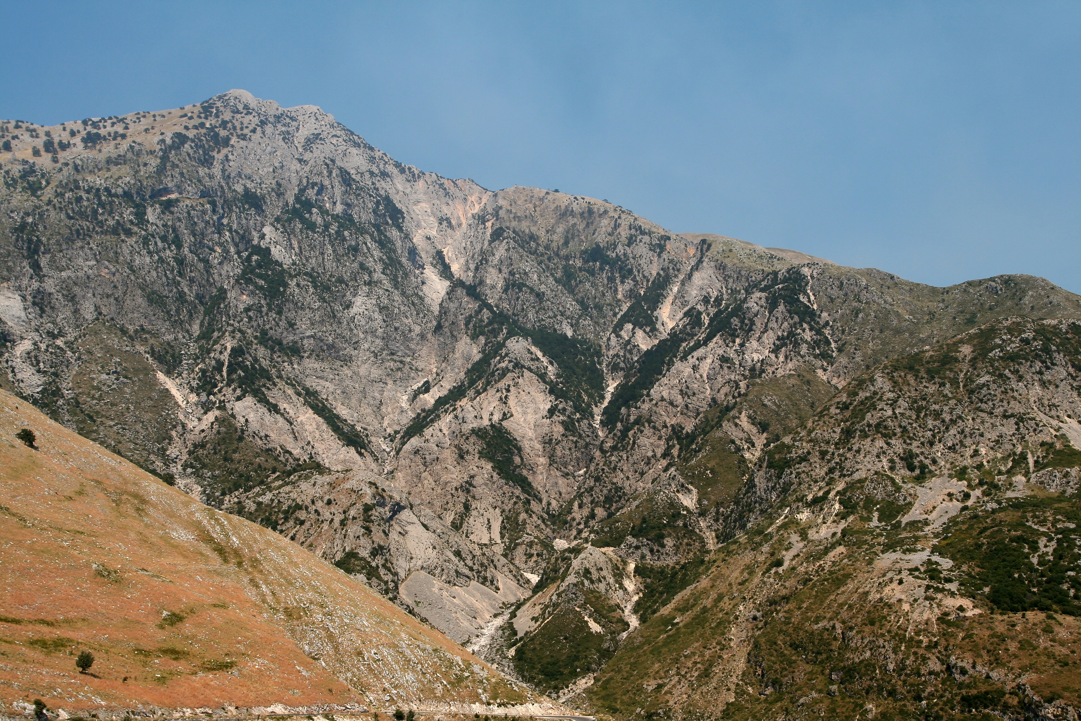 Mountains of the National Park of Llogara, Himara, Albania